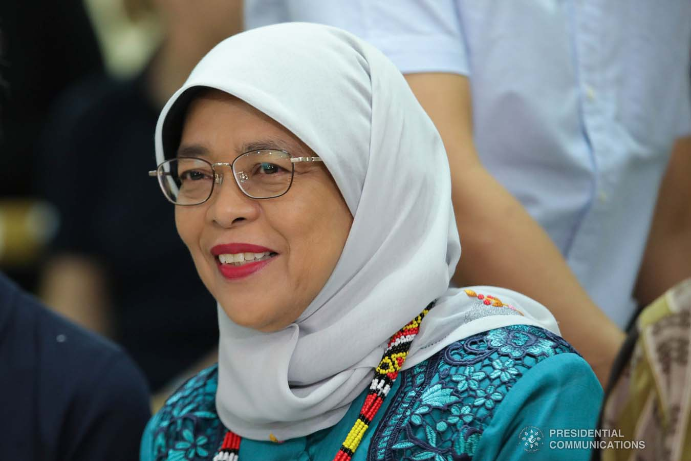 Republic of Singapore President Halimah Yacob witnesses the program proper during her visit to the Philippine Eagle Center in Davao City on September 11, 2019. ROBINSON NIÑAL JR./PRESIDENTIAL PHOTO